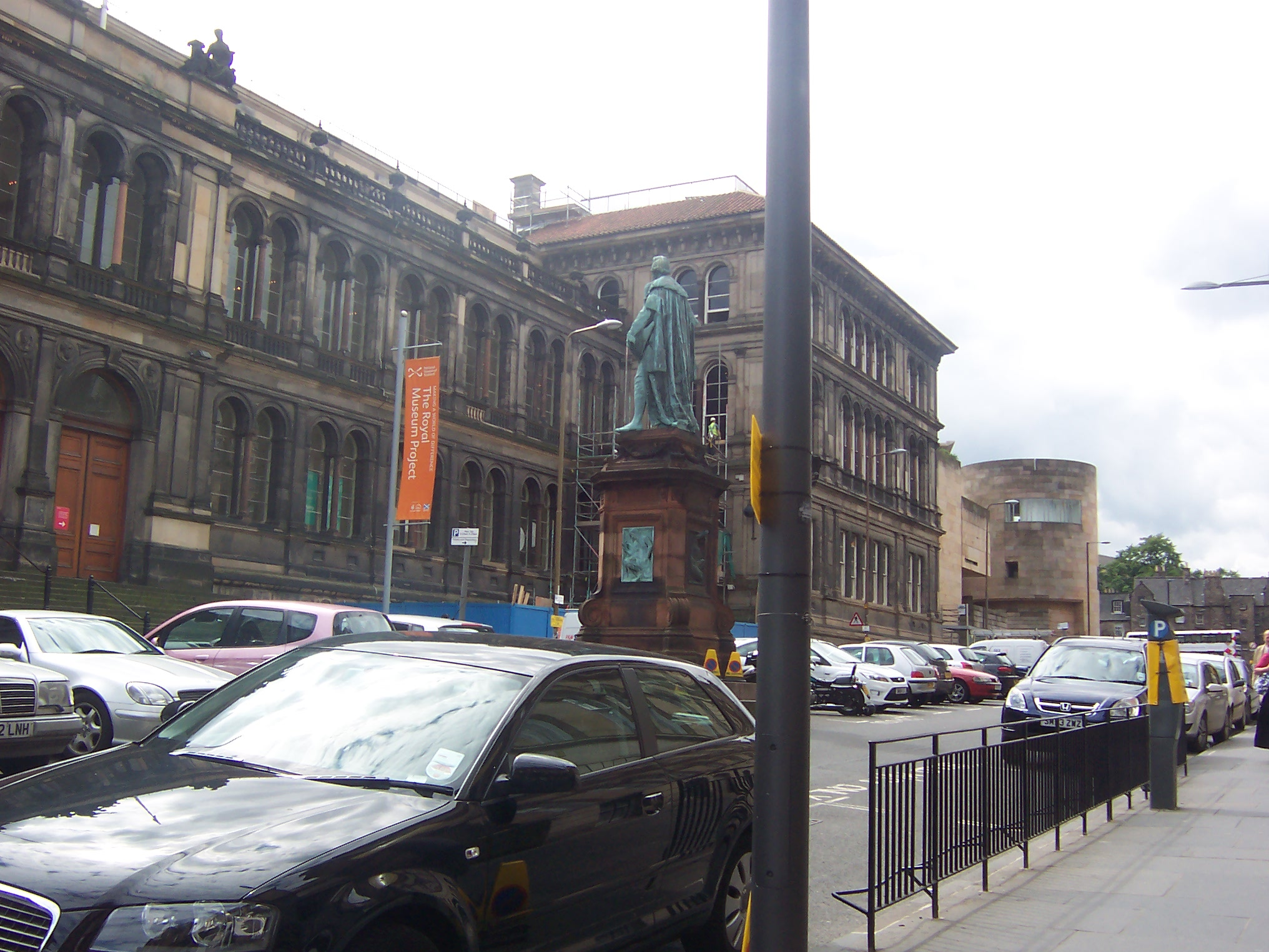 Royal Museum, Edinburgh from Chambers Street